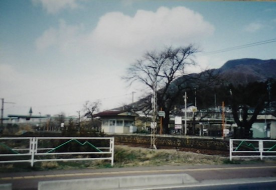 Naganodentetsu Akaiwa Station 2002 March